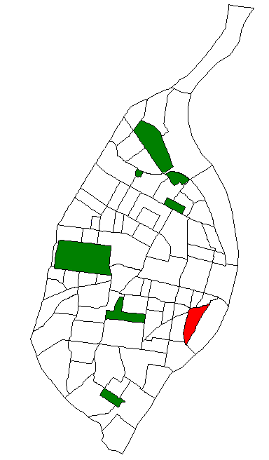 Map of St. Louis Neighborhood #21